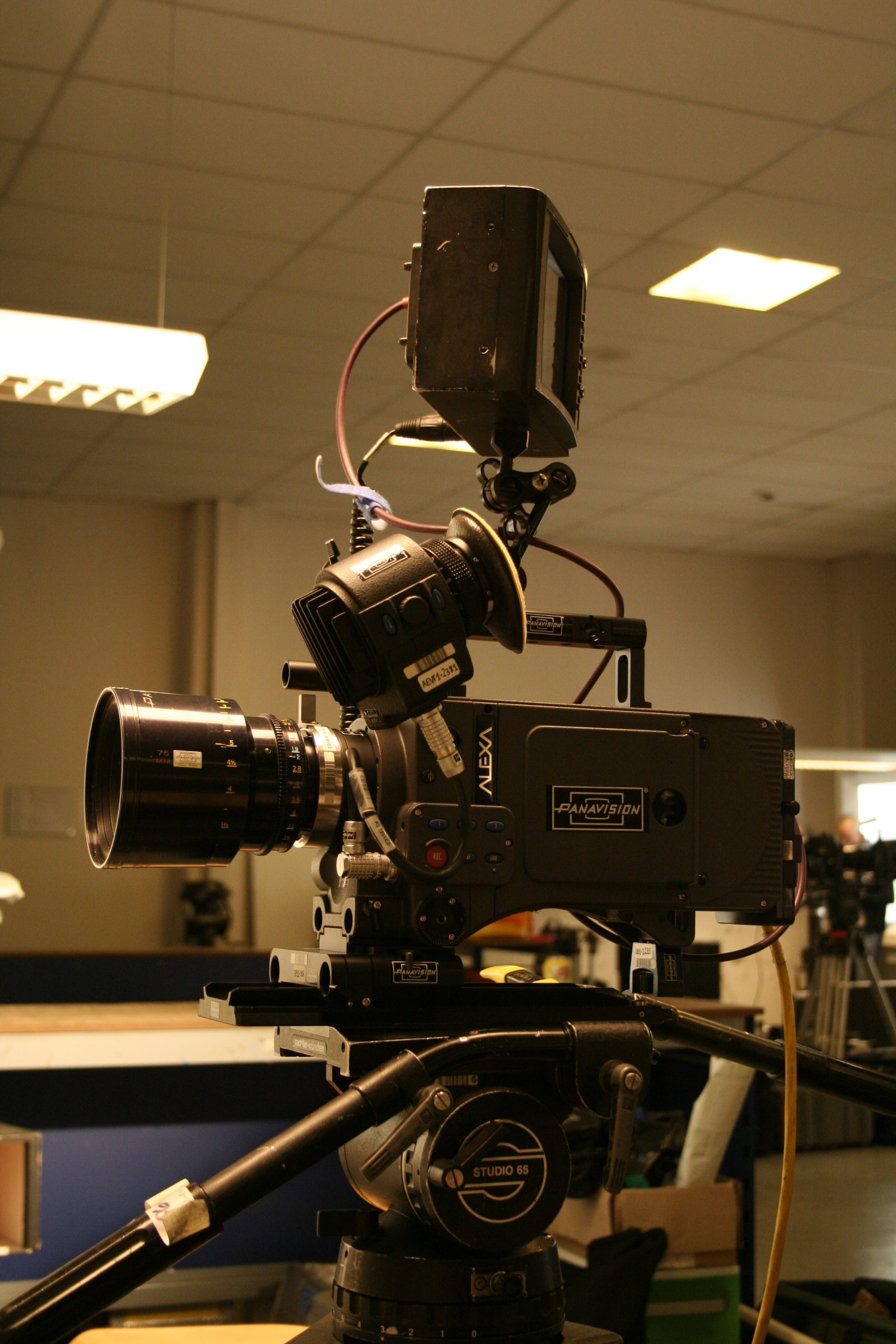 Full view of digital camera Alexa from german maker Arri.